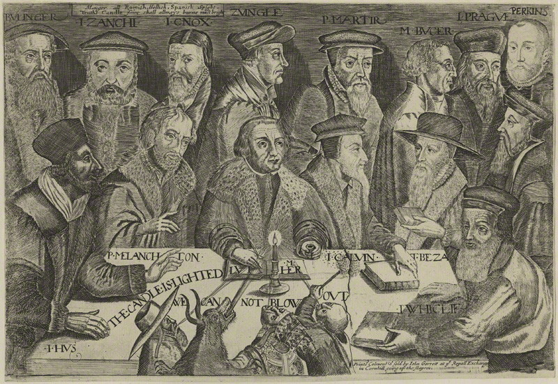 line engraving, mid 17th century 10 1/8 in. x 14 5/8 in. (257 mm x 372 mm) paper size